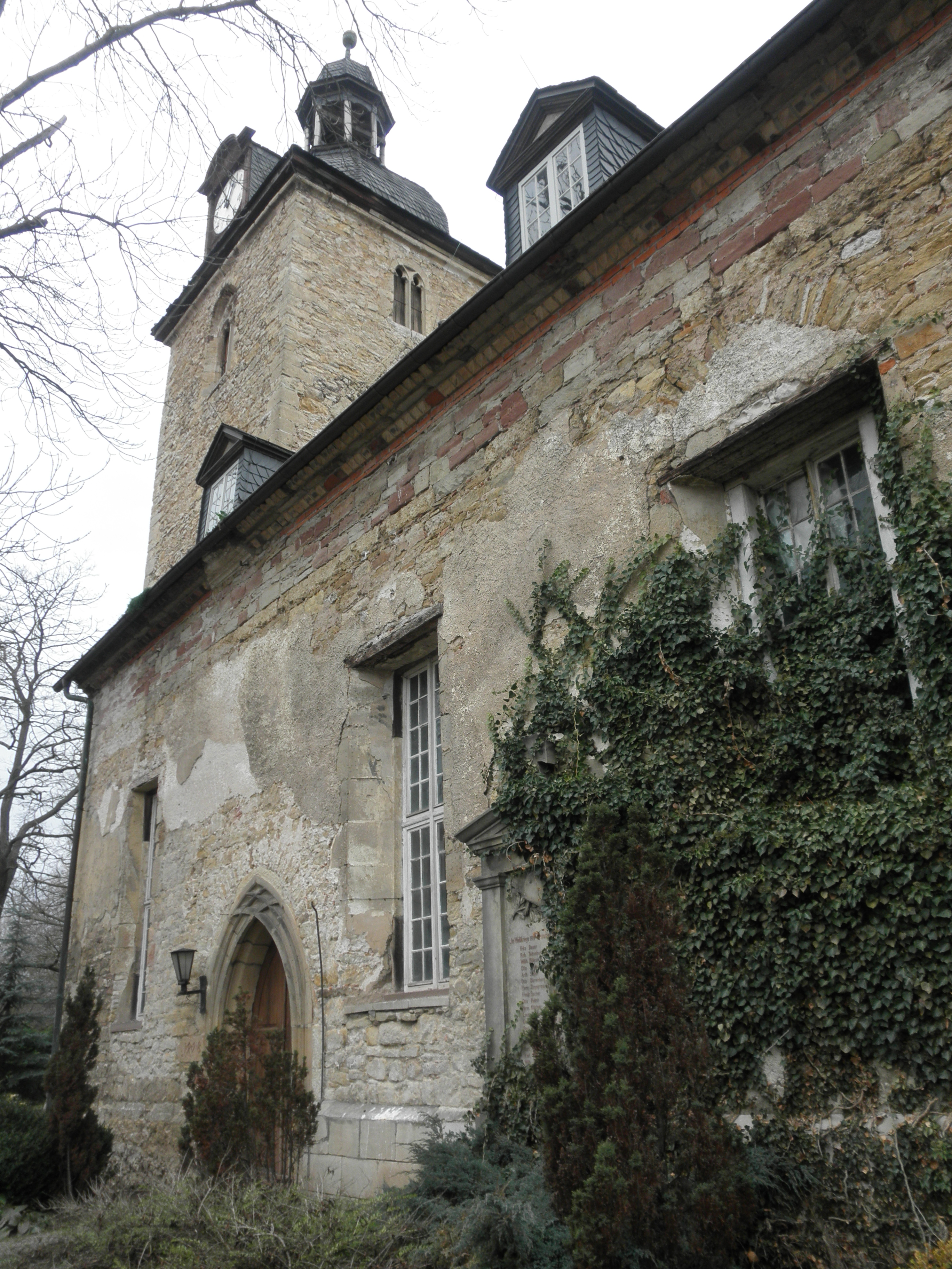 Church in Schillingstedt in Thuringia